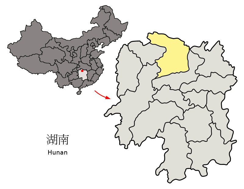 Location of Changde Prefecture (yellow) within Hunan Province of China Map drawn in december 2007 using various sources, mainly : Hunan Province administrative regions GIS data: 1:1M, County level, 1990 Hunan Counties map from